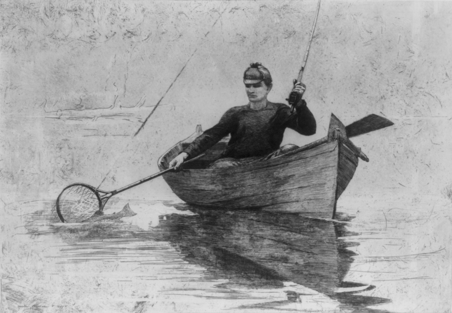 Flyfishing, etching by Winslow Homer